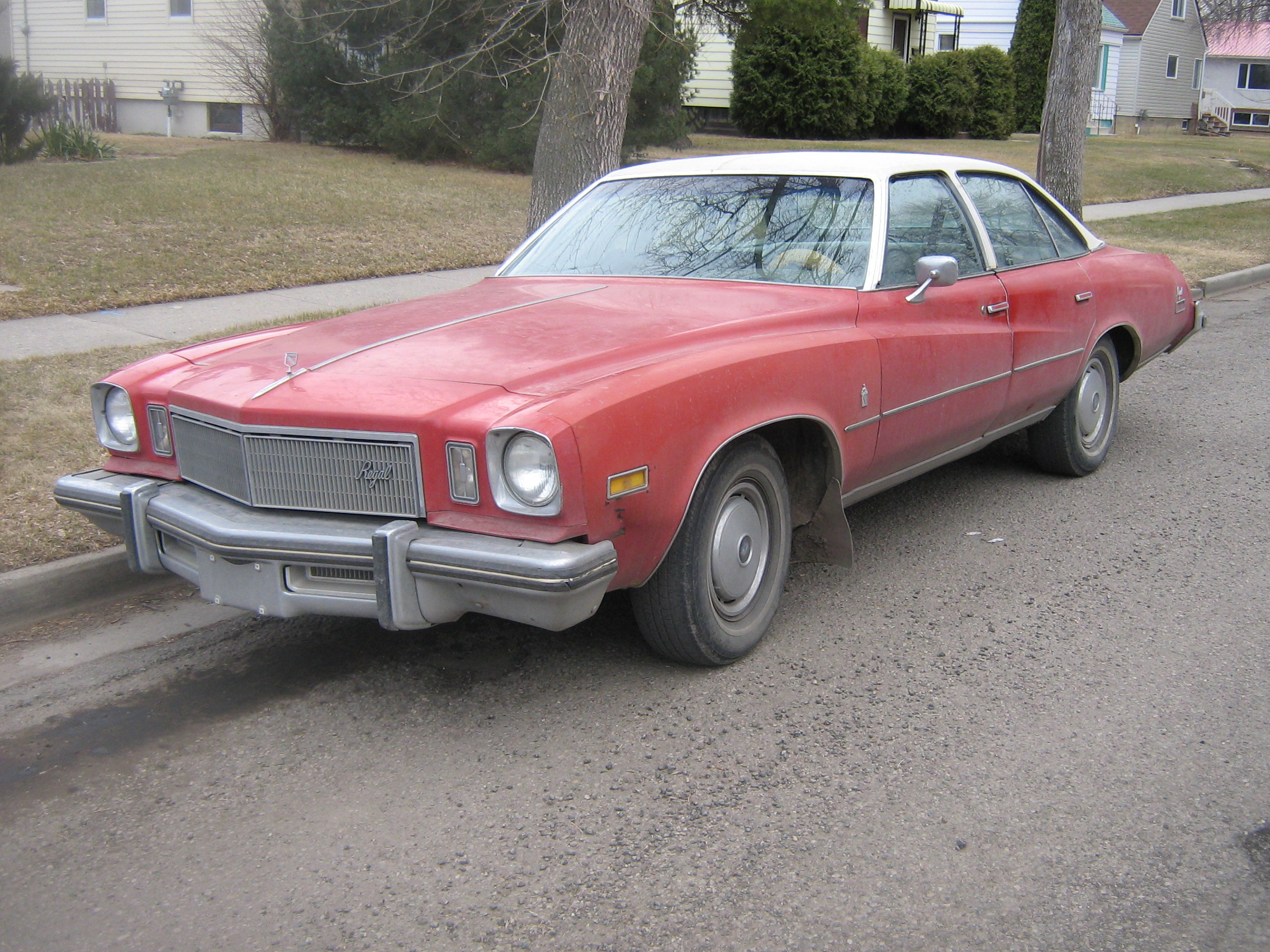 Don't see too many of these Buick Regals around anymore.